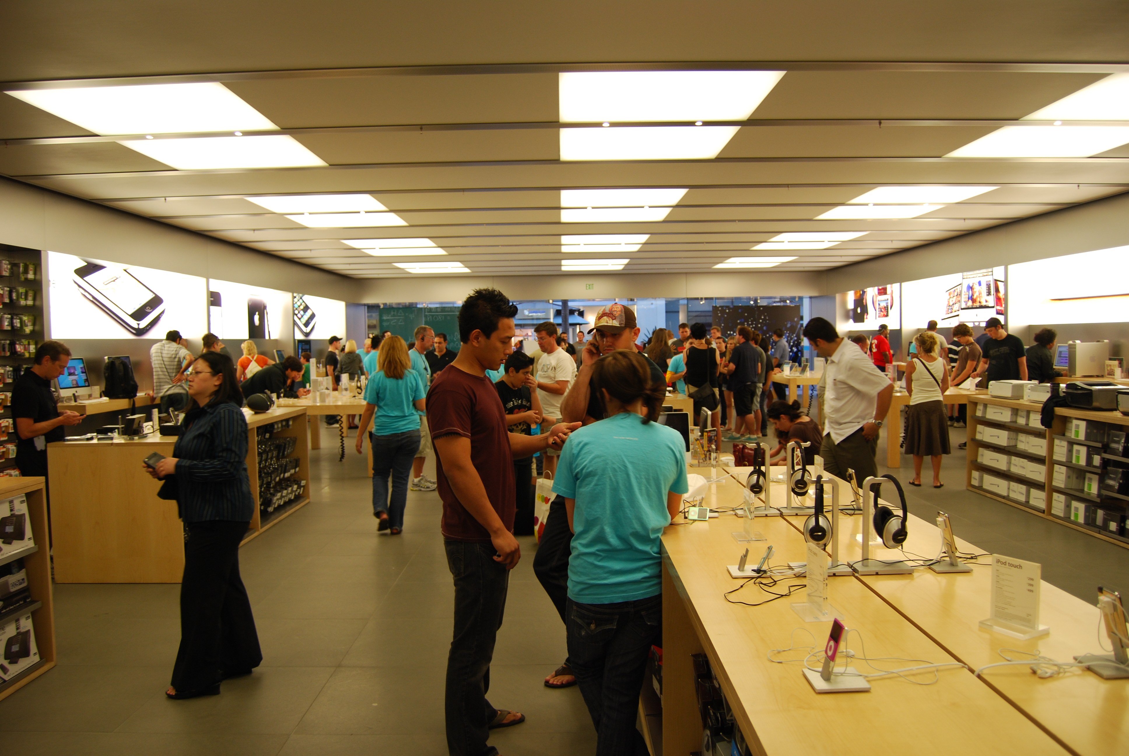 Inside the Apple Store in Fashion Valley, San Diego, CA